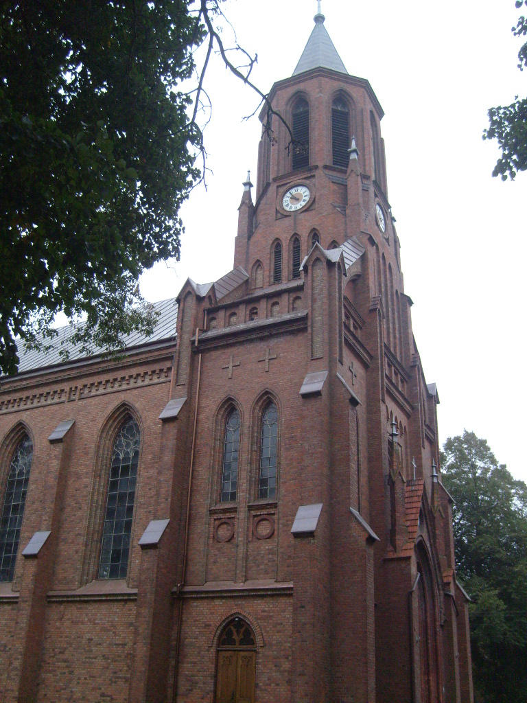 The church in Nowy Duninów, Poland